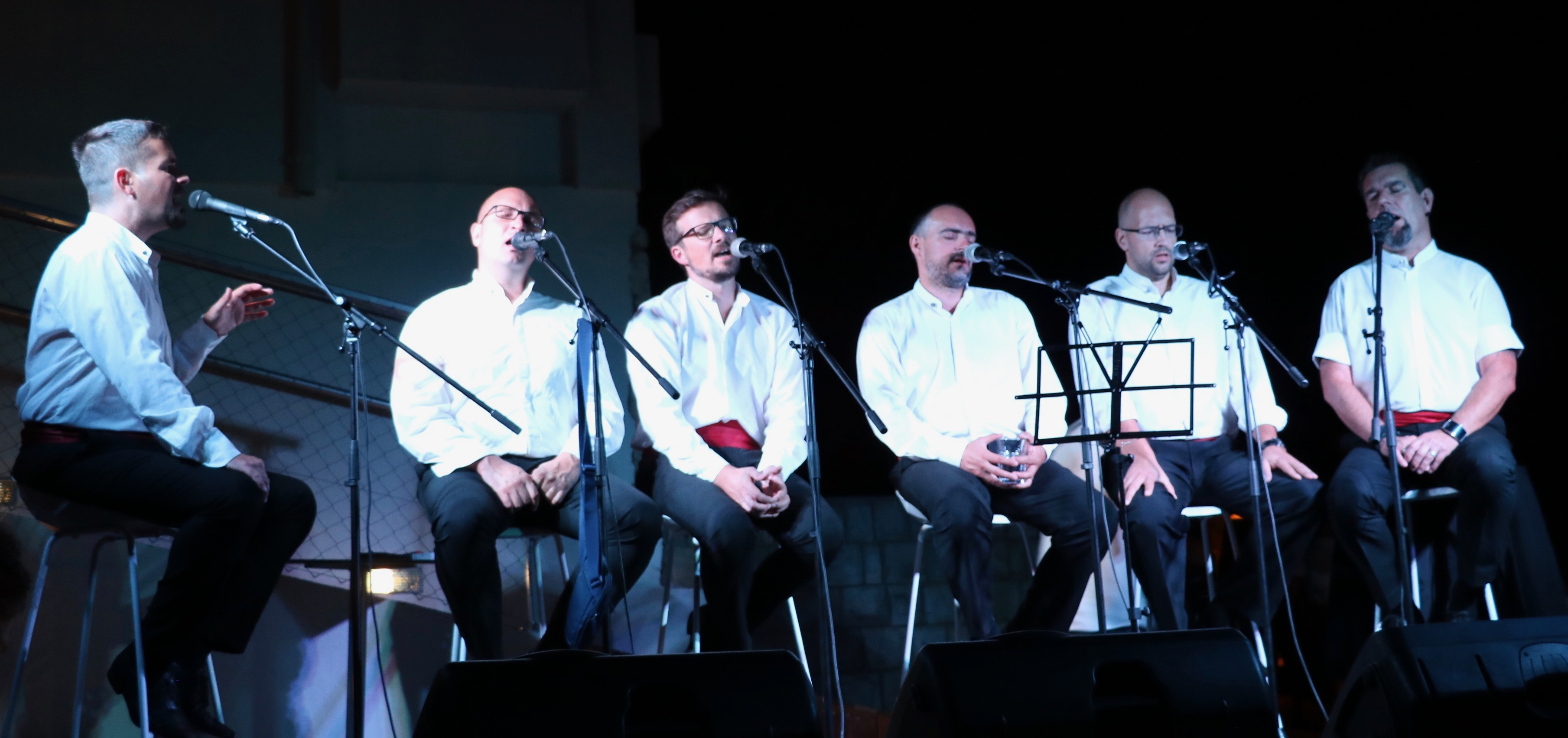 Live performance. Photo: Tara Banick